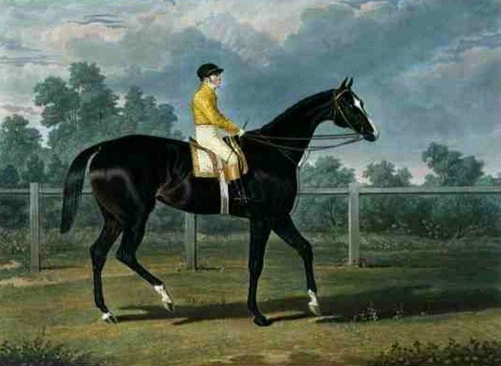 Painting of the British racehorse Queen of Trumps ca. 1835 by John Frederick Herring Sr (1795-1865)